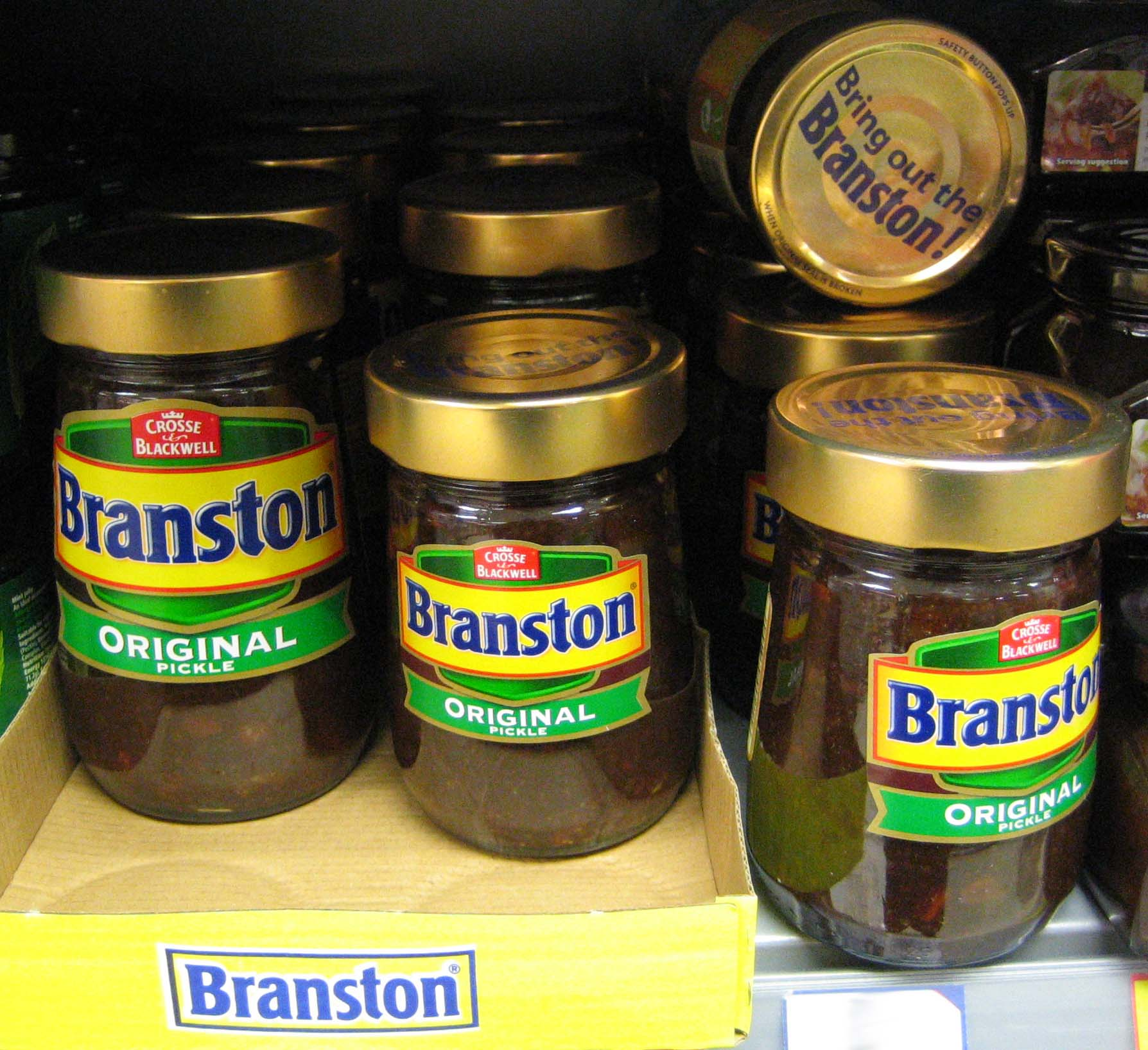 Jars of Branston Pickle on supermarket shelf